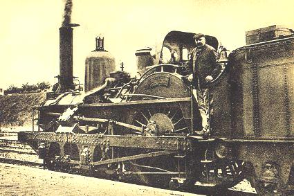 A photograph of a steam locomotive designed by Thomas Russell Crampton and built in 1846